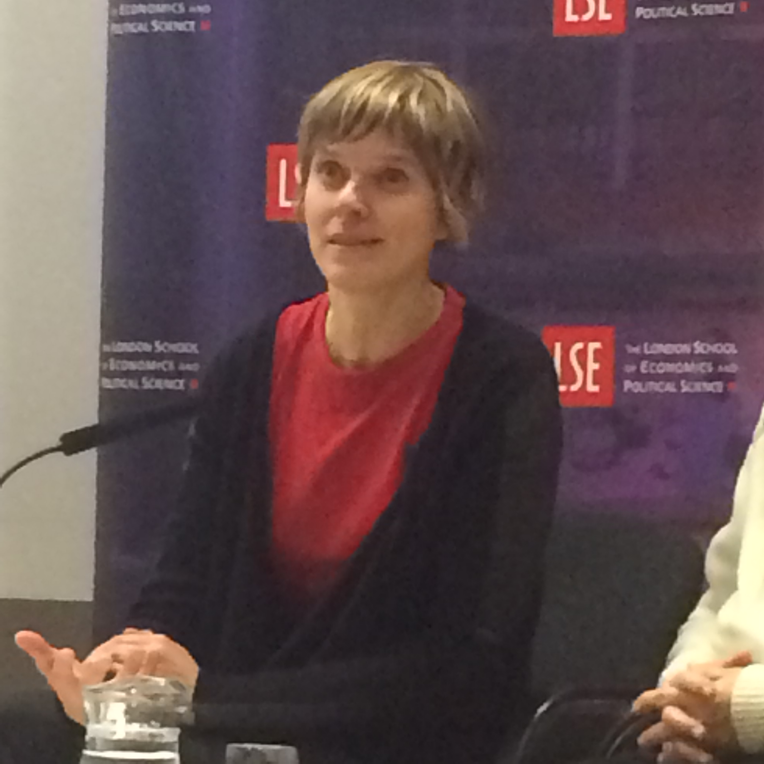 Sylvie Tissot at LSE